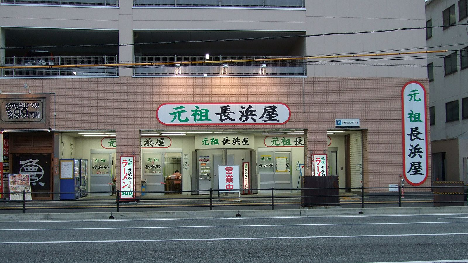 "Ganso Nagahamaya", the ramen restaurant, Nagahama, Chuo Ward, Fukuoka City, Fukuoka, Japan.